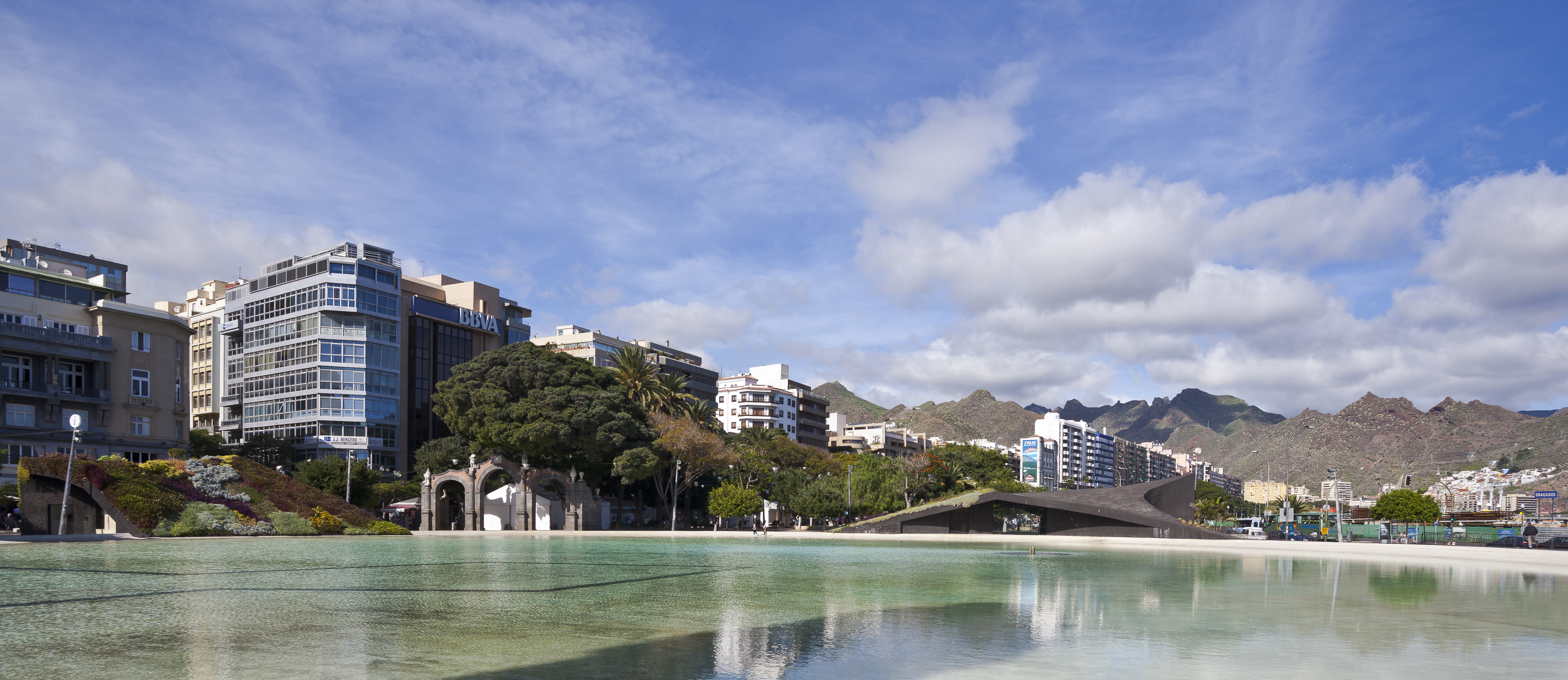 Square of Spain, Santa Cruz de Tenerife, Spain